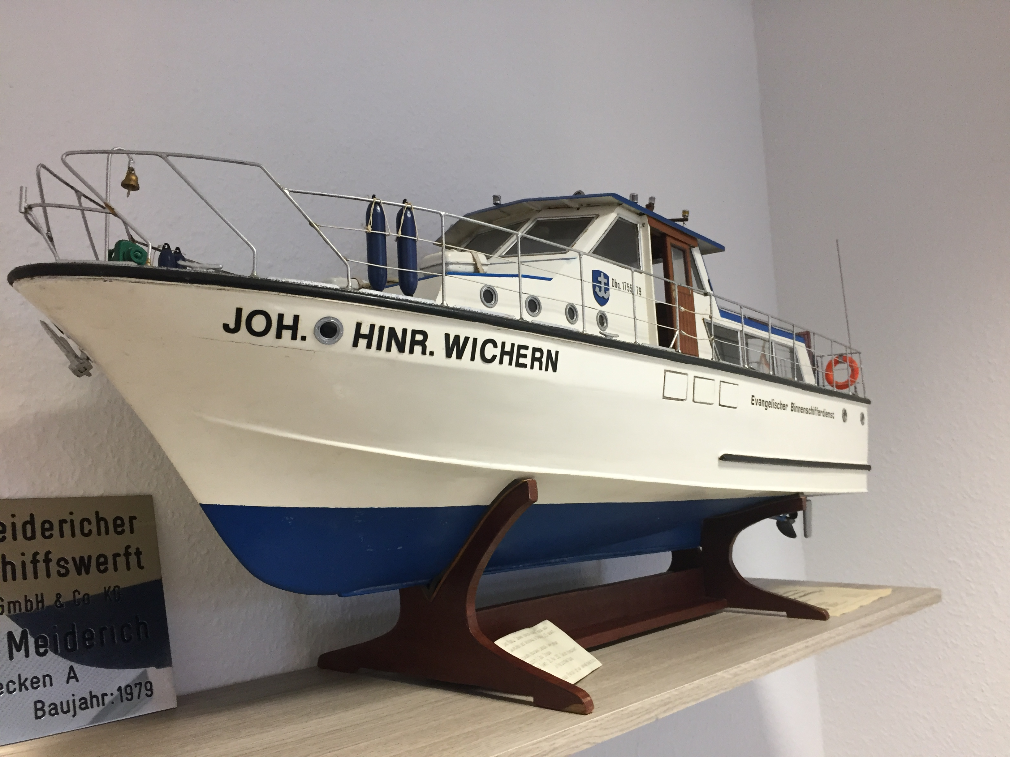 Boat Joh Hinrich Wichern of the Evangelocal Pastoral Service for Inland shipping